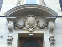 College